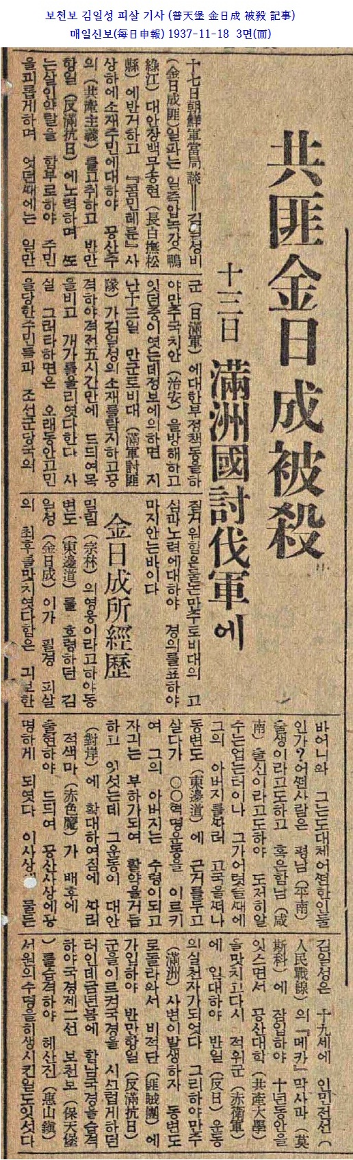 Maeil Sinbo article reporting that Kim Il Sung, who attacked Pochonbo village on June 4, 1937, had been killed on November 13, 1937.